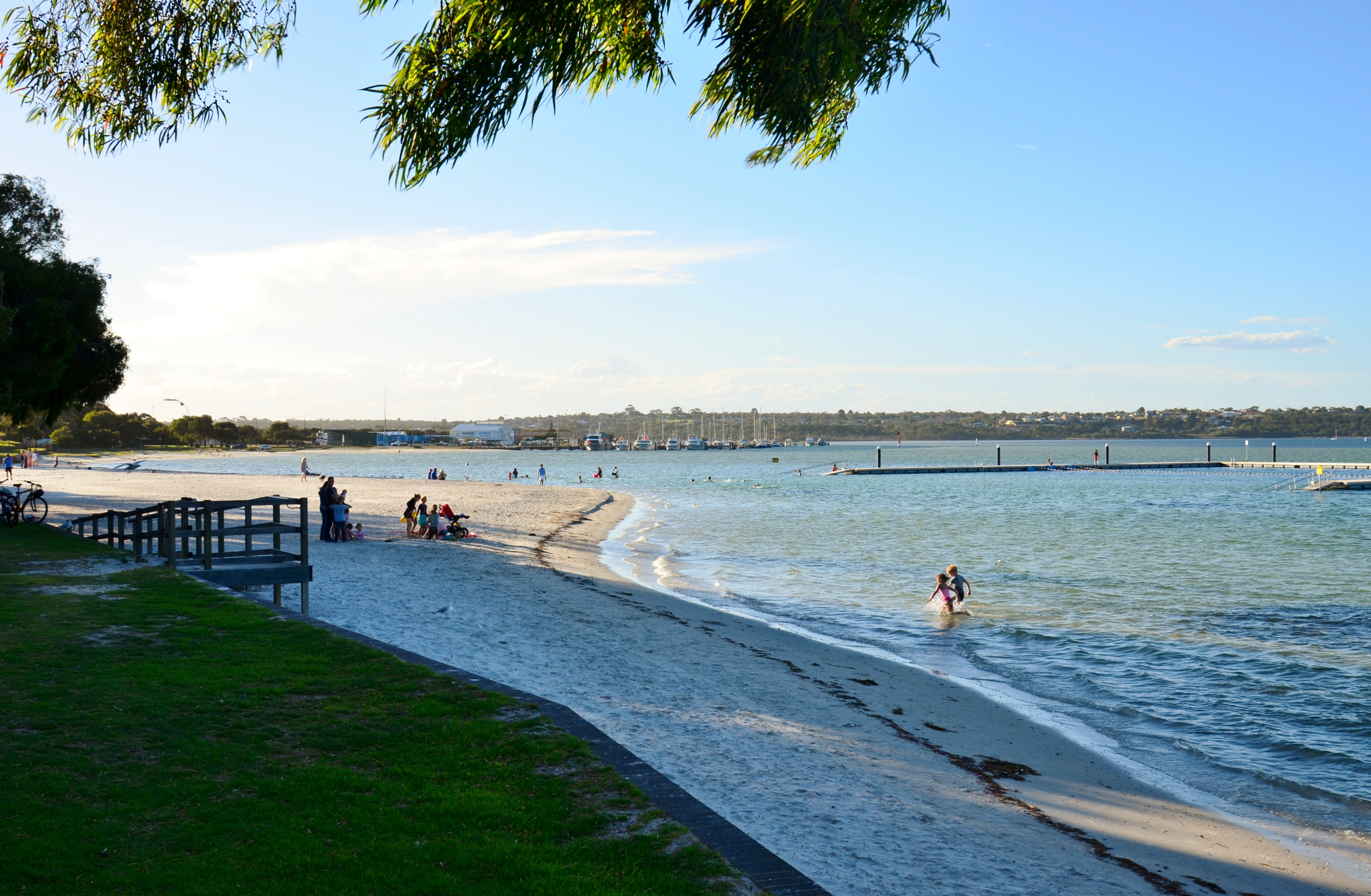 View of the beach at Emu Point, a suburb of Albany, Western Australia